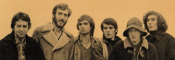 Stormy Six (1966–1993) with the members of the group in 1973-1976.